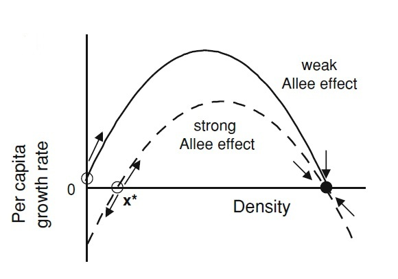 Graph of per capita growth as a function of population size for a strong and a weak Allee effect